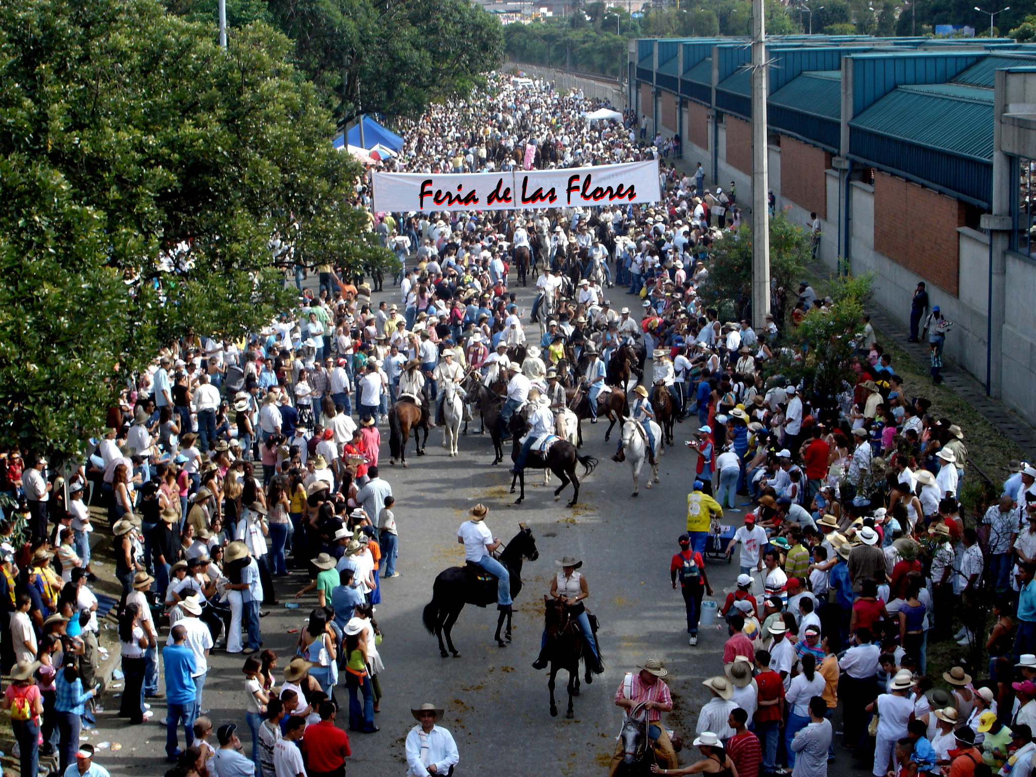 Image taken by uploader an edited on October 2006 cabalgata de la Feria de las Flores